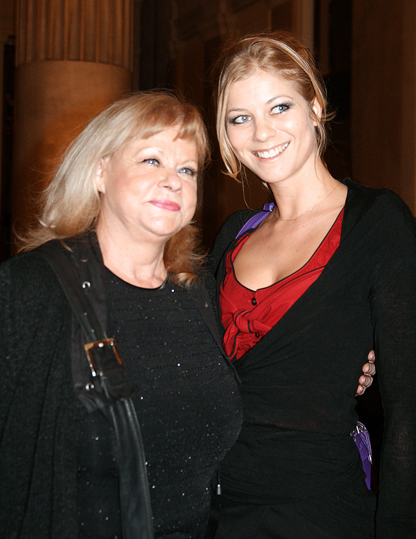 Marianne Mendt and Hilde Dalik at the Austrian Film Awards 2011 at the Odeon theater in Vienna.